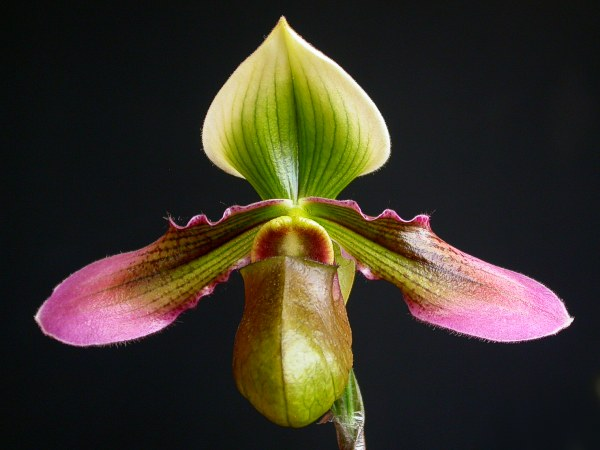 Paphiopedilum